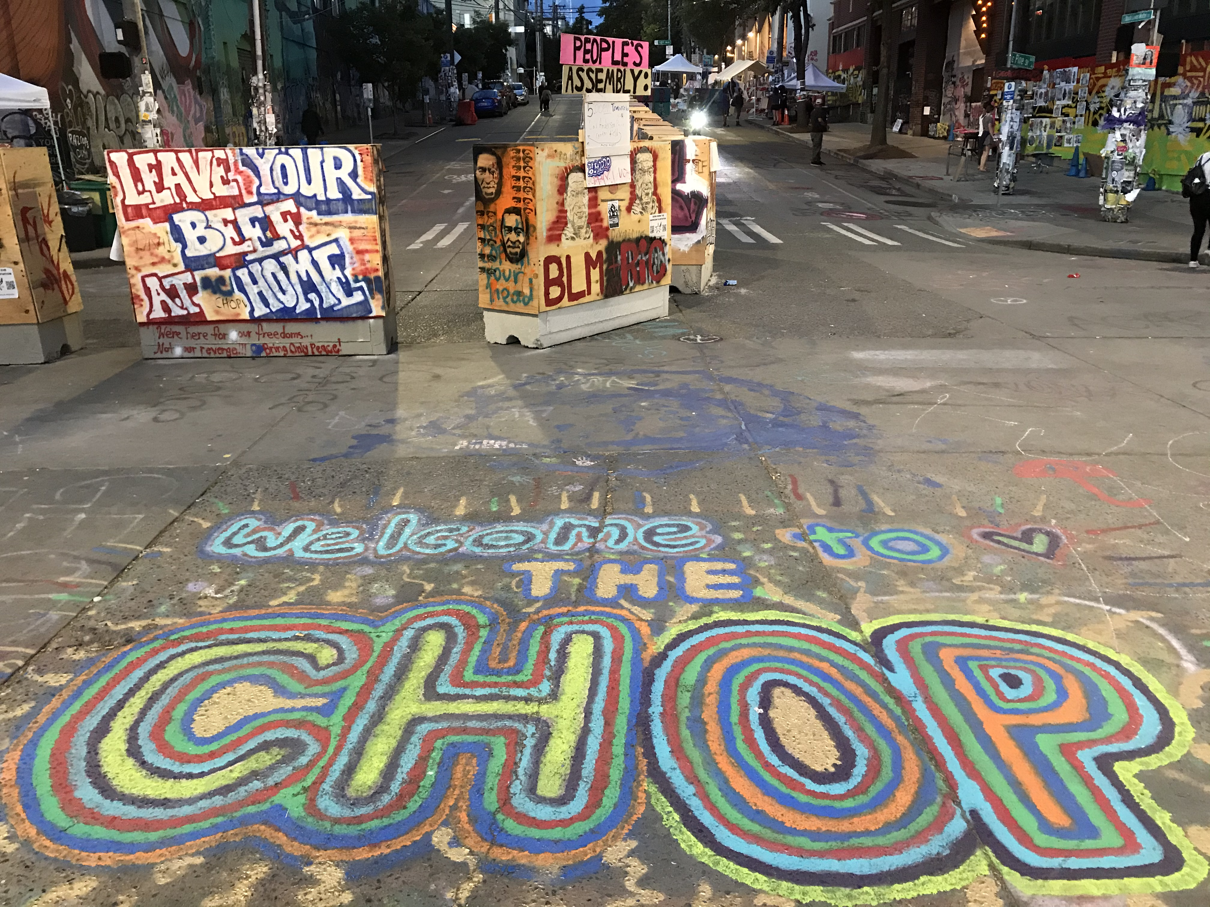 artwork at the Capitol Hill Organized Protest (CHOP) entrance on Pine Street and 11th Avenue, Seattle, Washington on June 24, 2020